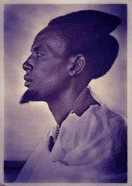 Tutsi noble man of ancient Rwanda